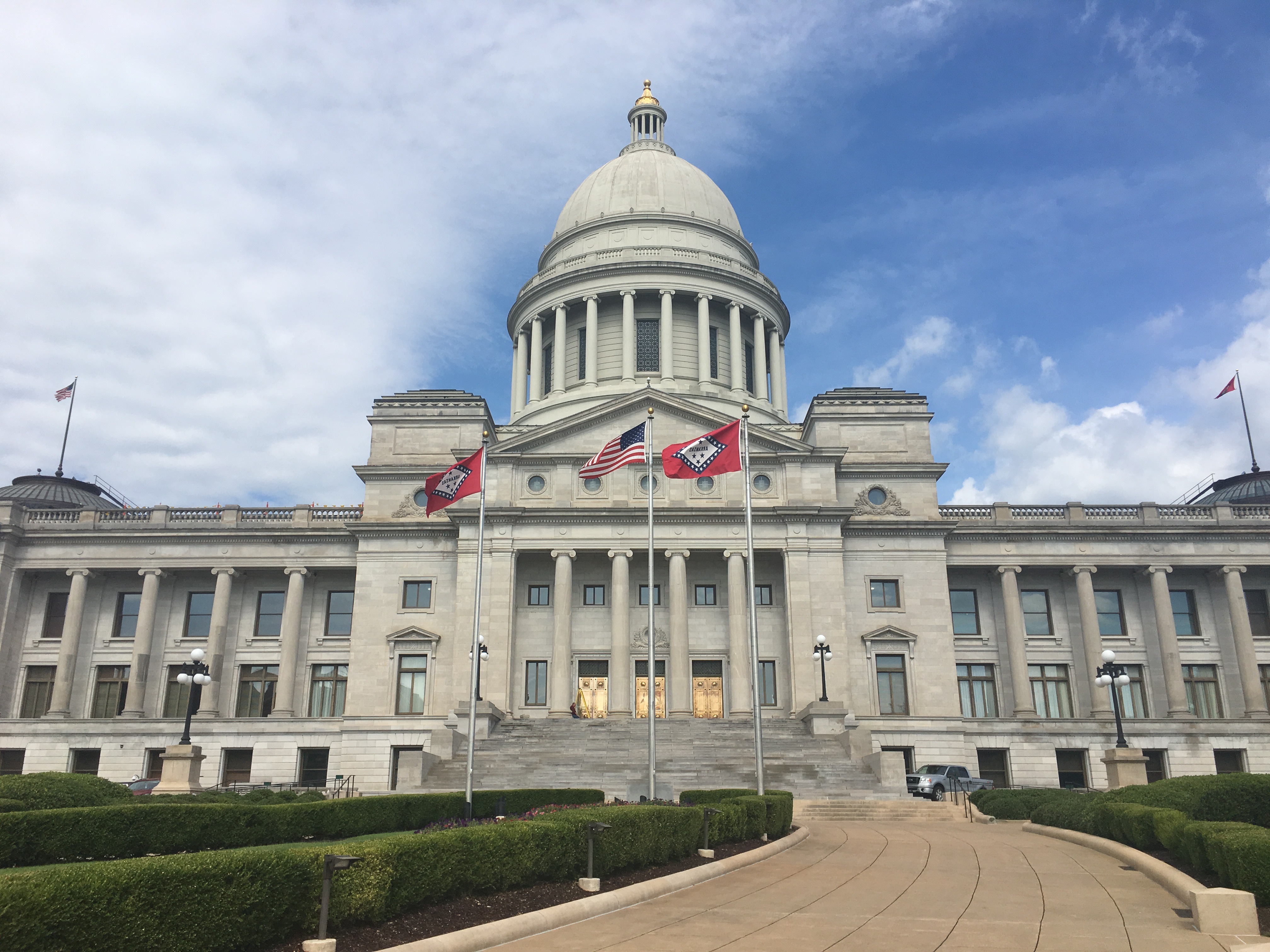 A view of the Arkansas State Capitol in Little Rock